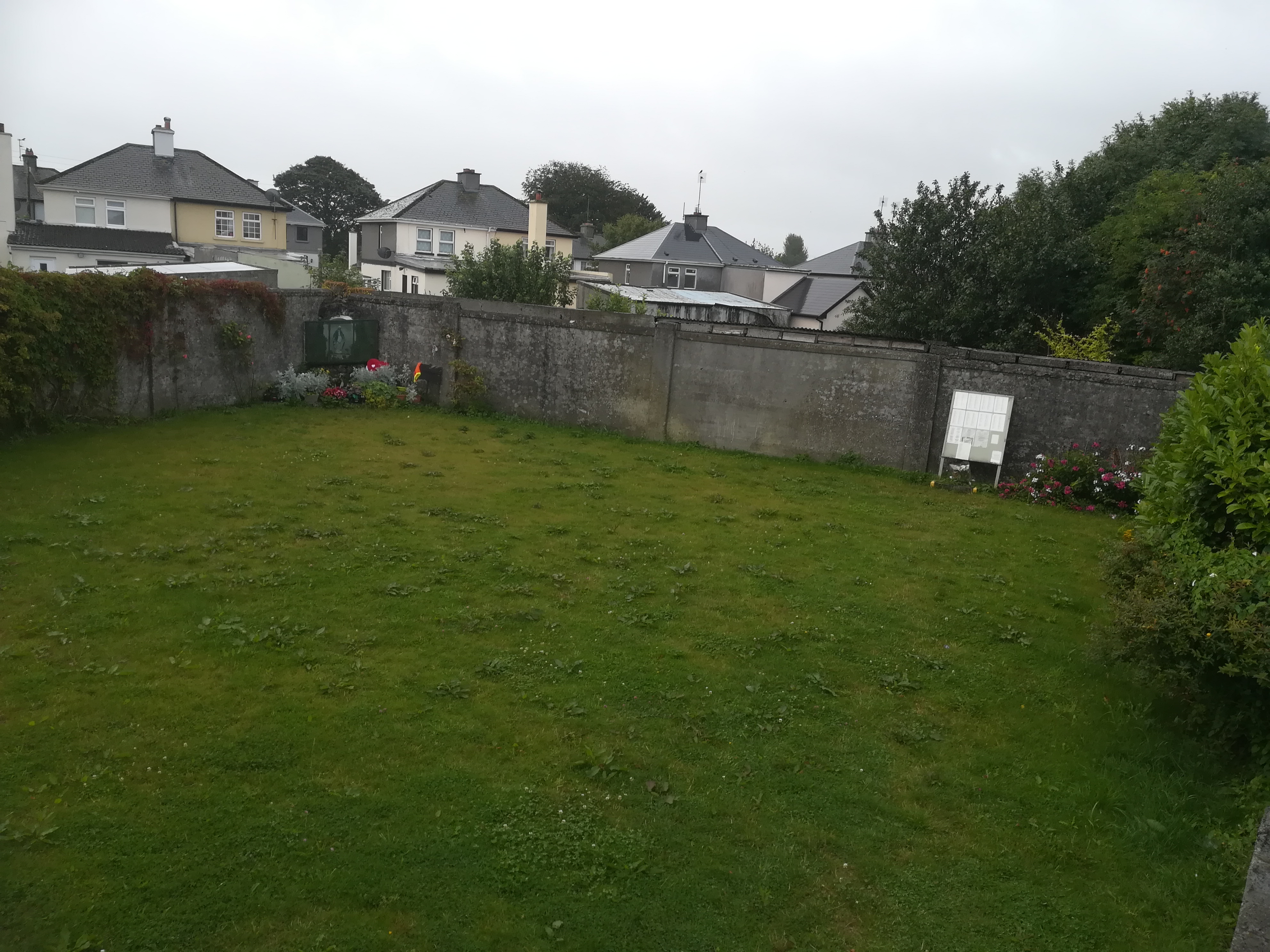 Photograph of the site of the mass grave at the Bon Secours Mother and Baby Home, located in Tuam, County Galway, Republic of Ireland